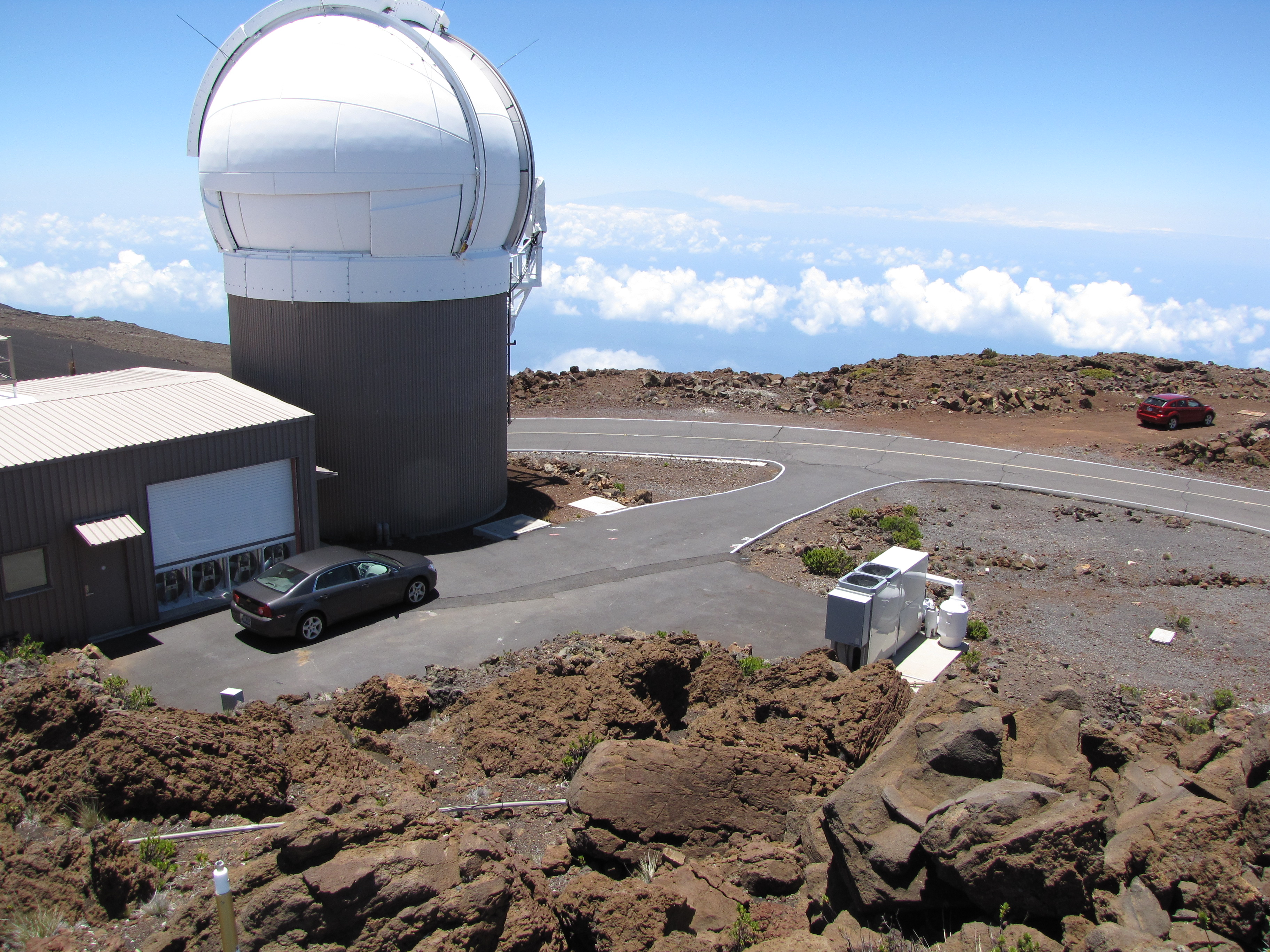 Dubautia menziesii (Kupaoa) Habitat view observatories Pan Starrs at Science City, Maui, Hawaii. May 24, 2011 #110524-5707 Image Use Policy